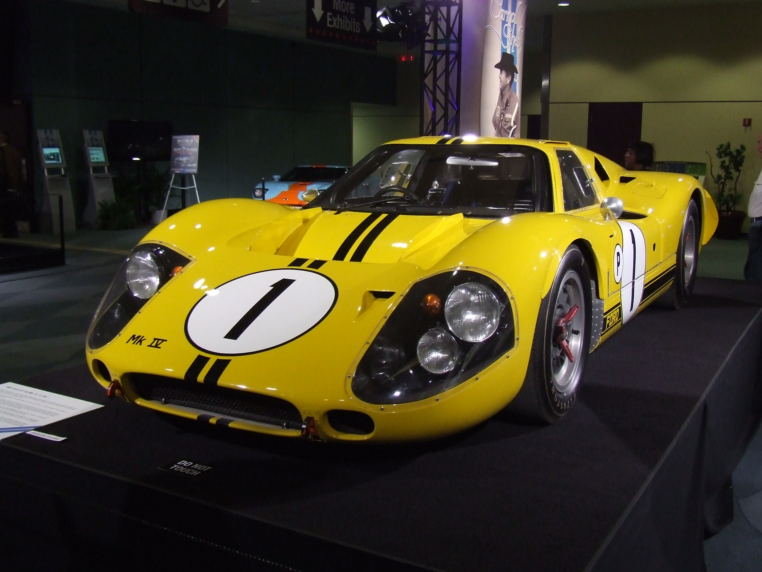 1967 GT40 Mk IV J Car, 2010 Canadian International AutoShow.